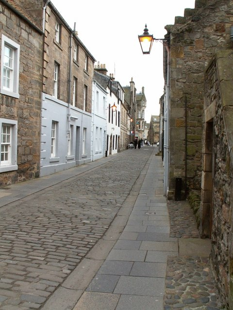 College St, St Andrews. Looking south from North Street to Market St